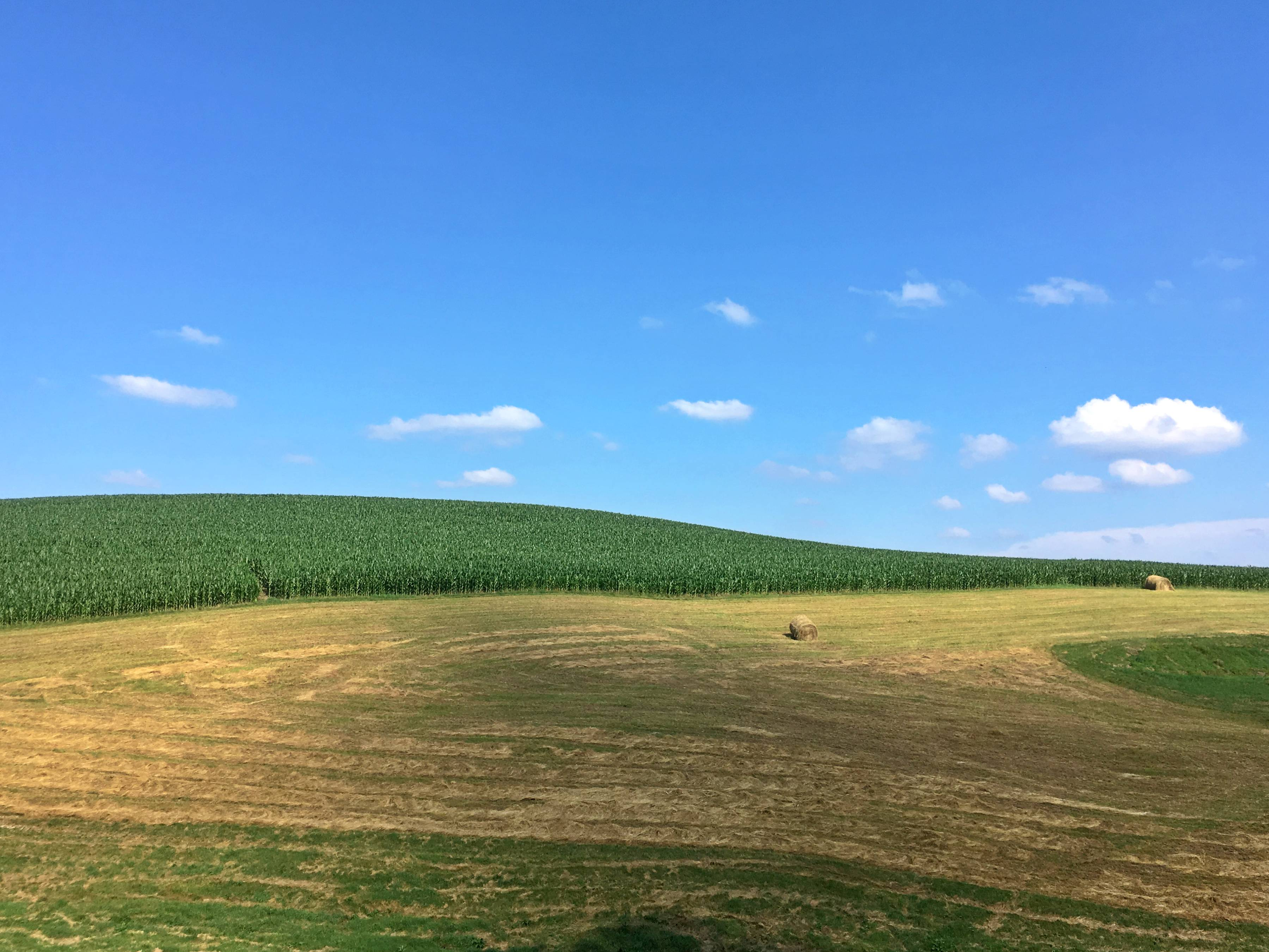 Rolling farm lands are very common near Jewett, Harrison County, Ohio.